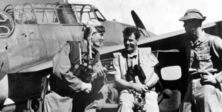 Three U.S. Navy pilots in front of a Grumman TBF-1 Avenger torpedo bomber of torpedo squadron VT-11 on Guadalcanal in May 1943. The pilots are (l-r): Lt.(jg) George Gay, LCdr. W.L. Hamilton, and LCdr. F.L. Ashworth (CO VT-11). Lt. Gay was the sole survivor of VT-8 at the Battle of Midway.